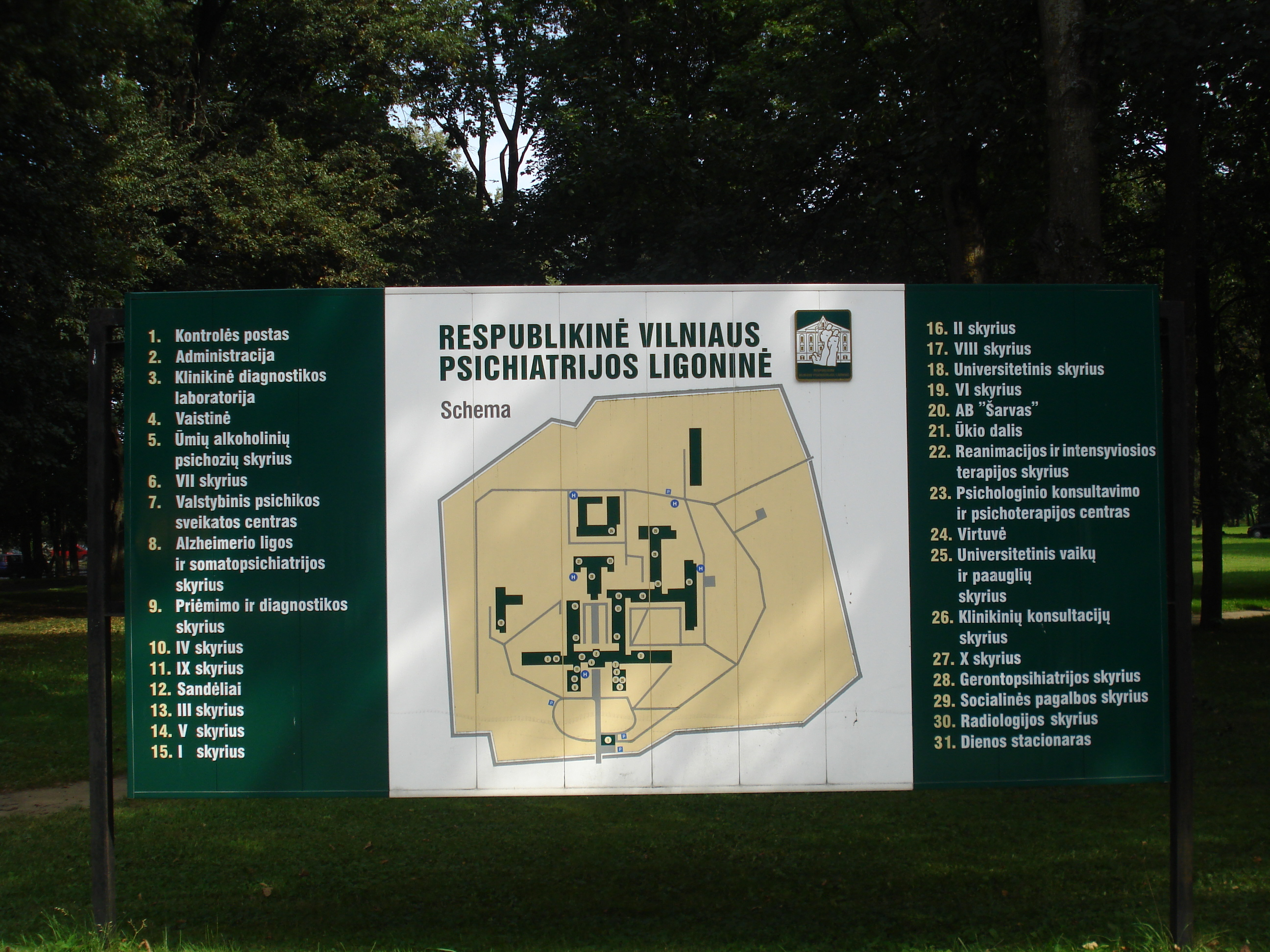 The Republican Vilnius Psychiatric Hospital in Naujoji Vilnia (Parko g. 15), is one of the largest health facilities in Lithuania; build in 1902, official opening on 21 May 1903. Information board